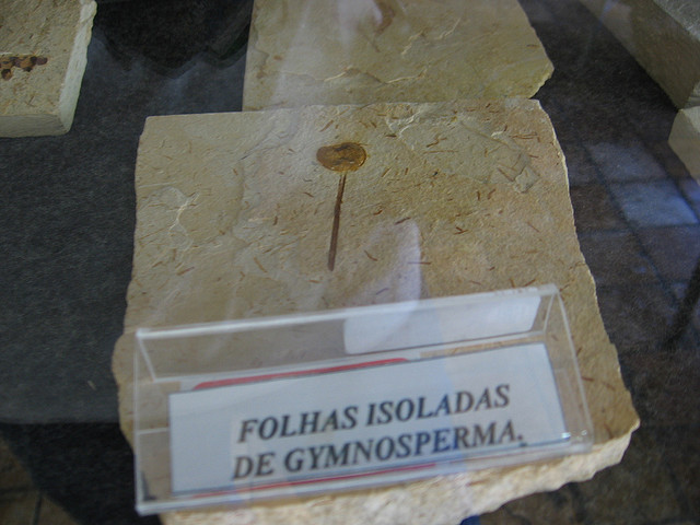 Fossil of a leaf at the Museum of Fossils of Crato, Crato, Ceará, Brazil